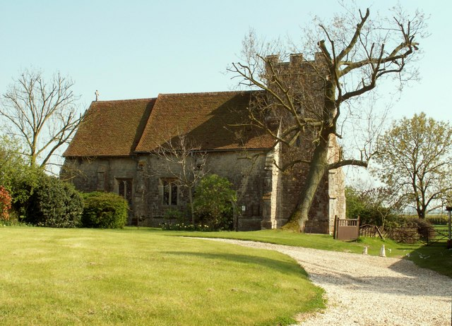 St. Nicholas church, Little Wigborough, Essex. This small late 15th-century church stands by Copt Hall.